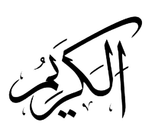 Al-Karīm / The Bountiful / The Generous is a name of God in Islam, is a name of Allah.